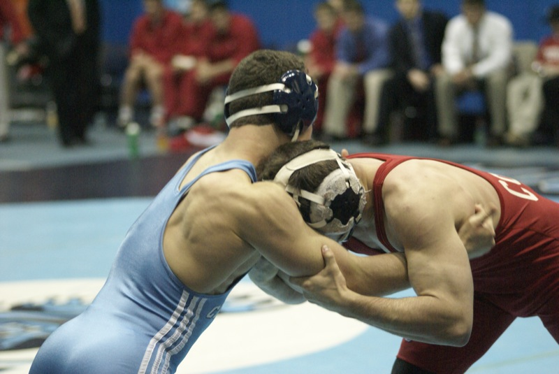 Two college students wrestling (collegiate, scholastic, or folkstyle) in the United States.